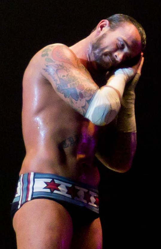 CM Punk with his signature pose at a WWE Raw house show in London on November 11, 2011